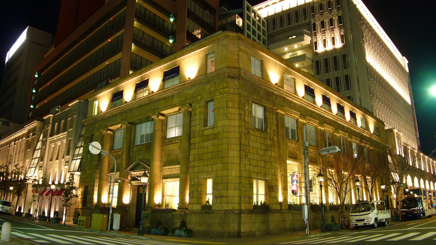 The Old Settlement Hall of No.38 in Kobe, Hyogo prefecture, Japan